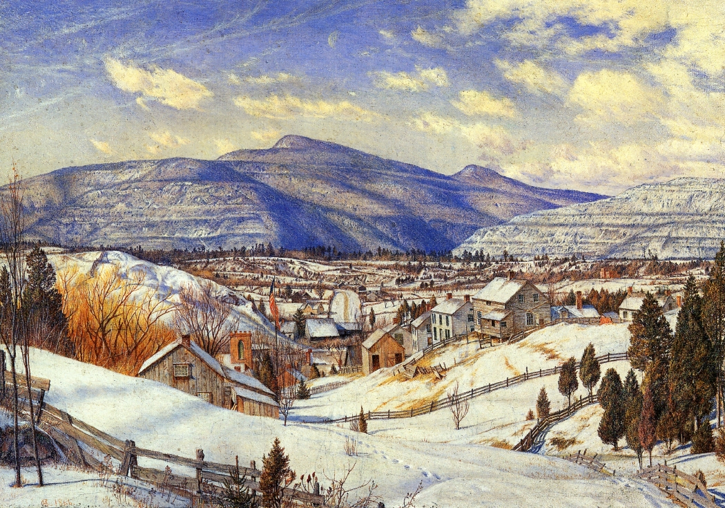 Winter Landscape, Valley of the Catskill, 1866 Oil on canvas 18 x 26 cm. (7 1/16 x 10 1/4 in.) frame: 28 × 35.5 × 4.7 cm (11 × 14 × 1 7/8 in.) Gift of Frank Jewett Mather Jr. y1953-35